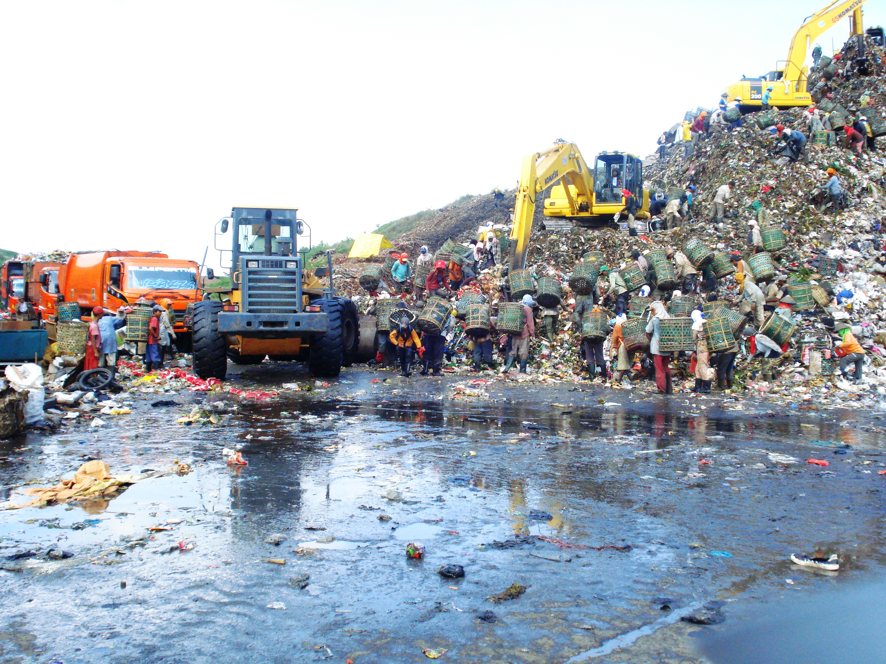 Bantar Gebang, Jakarta, one of the final place of waste treatment in Indonesia.